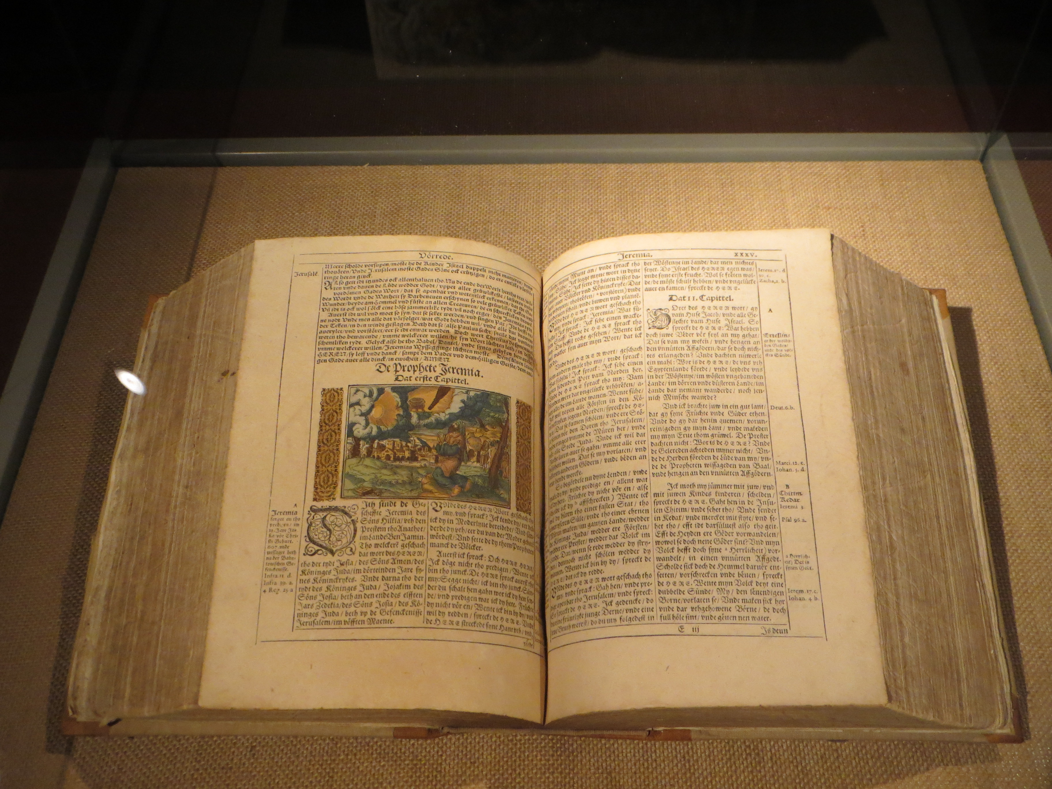 Niederdeutsches Bibelzentrum St. Jürgen, Barther Bibel